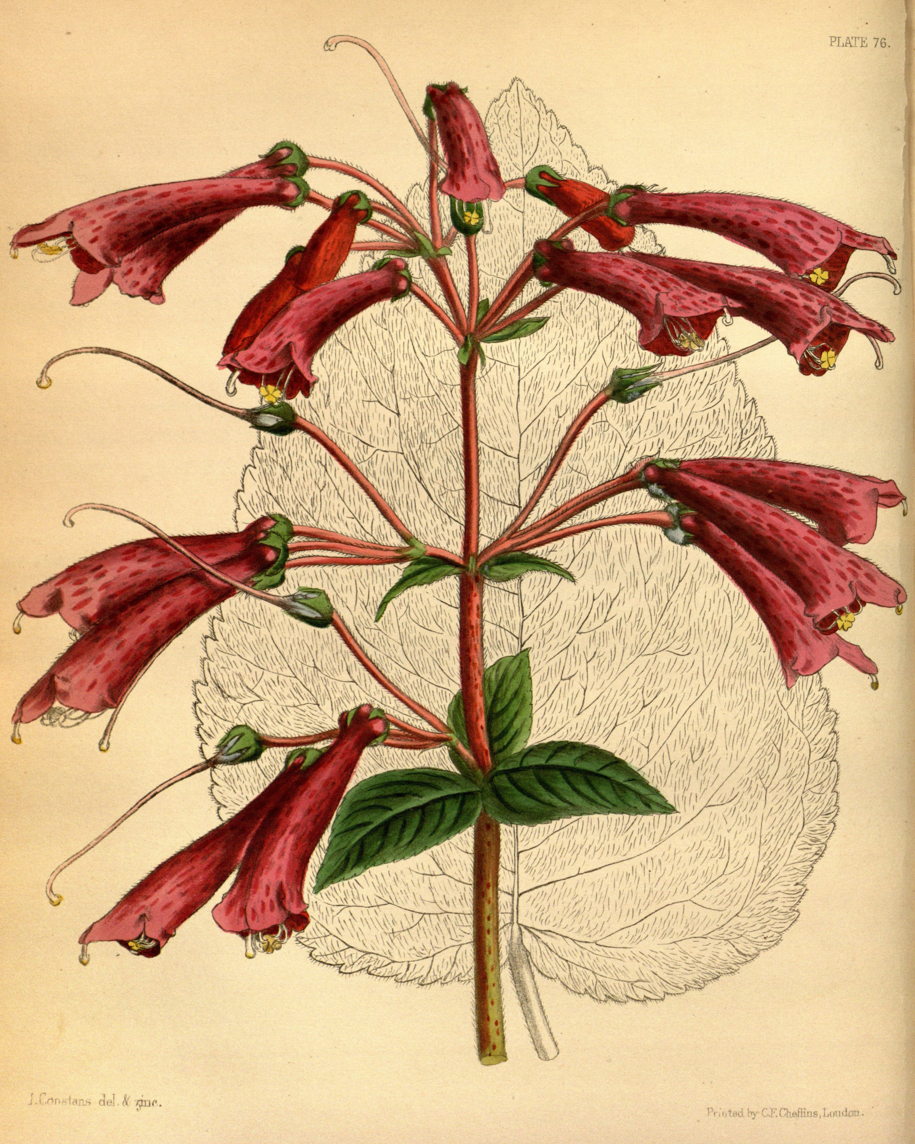 Kohleria rugata (Scheidw.) L.P. Kvist & L.E. Skog, syn. Gesneria maculata Moç. & Sessé ex DC.